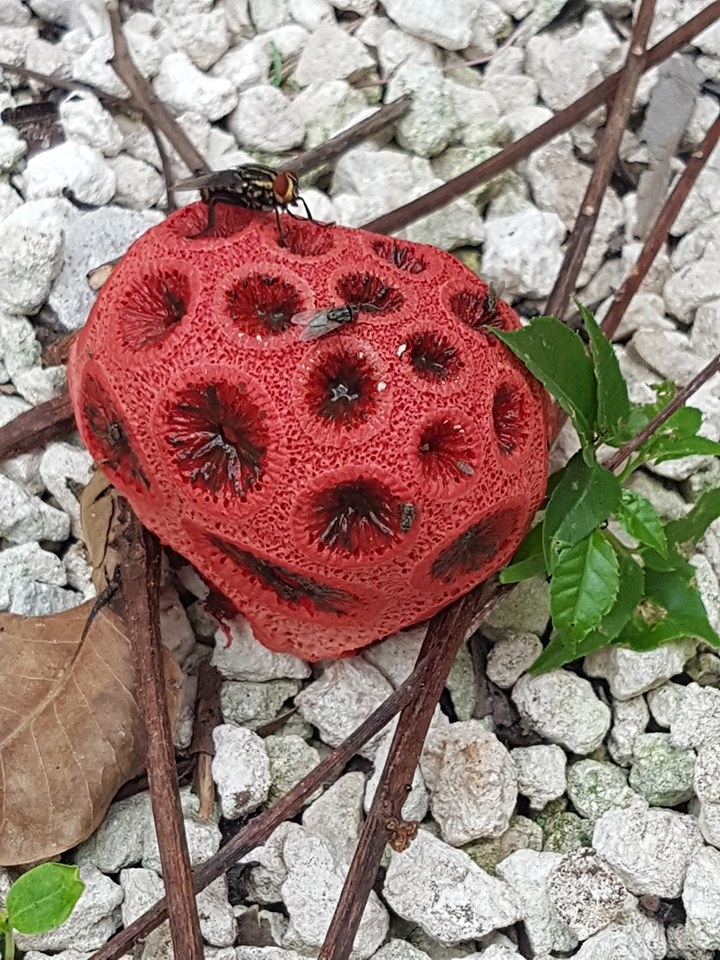 Clathrus Ruber Phallaceae Mushroom found in Yucatan 2019, locally known as "Devil's heart" smells bad to attract flies as pollinators Аҧсшәа: Clathrus Ruber Phallaceae hongo encotrado en Yucatan en 2019, localmente conocido como "Hongo del Diablo" o "el peine de la X'tabay" es un hermoso hongo que tiene un olor feo para espantar depredadores y atraer moscas como polinizadores. Foto cortesia de Carmen Ramos.